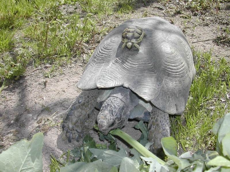 Testudo marginata female with hatchling, Sardegna Italy